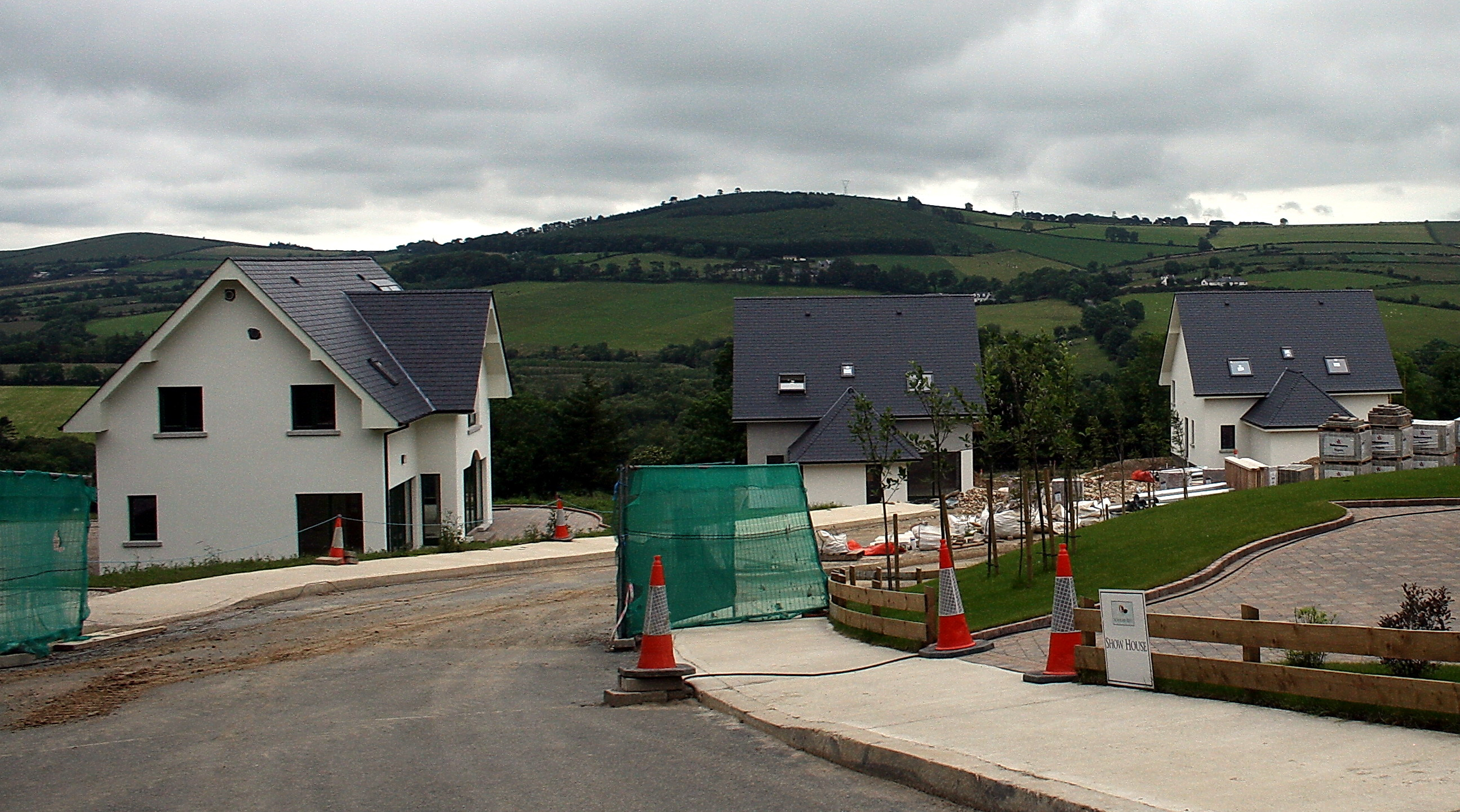 New small suburban housing estate in Hollyfort, County Wexford, Ireland